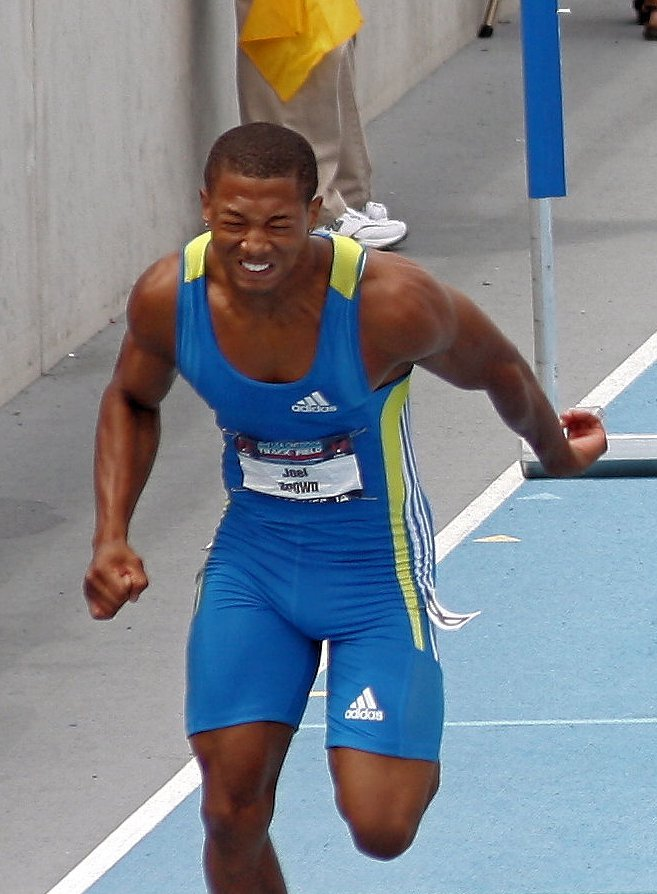 Joel Brown during 2010 USA Outdoor